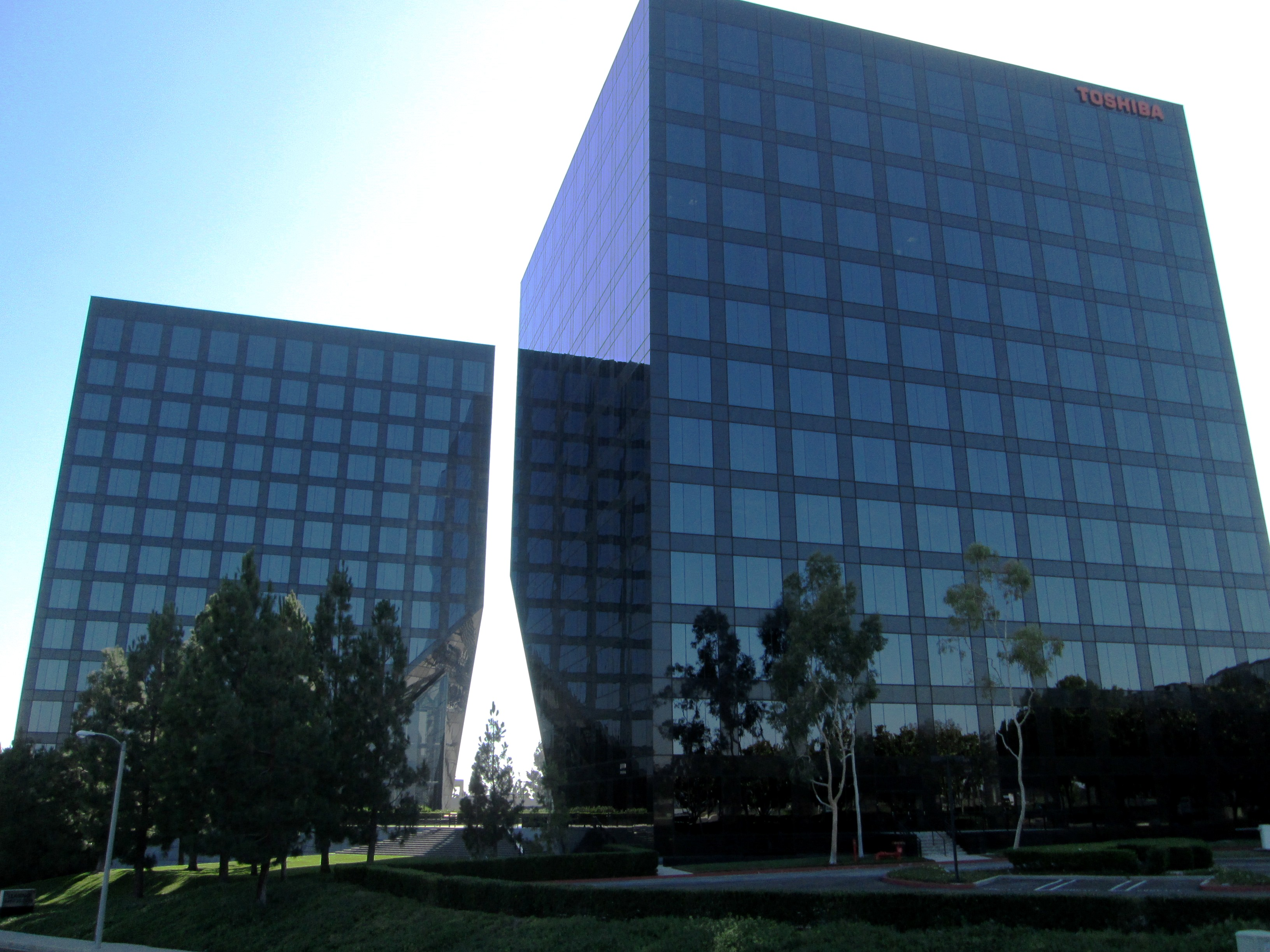 The Newport Gateway buildings at 19800 and 19900 MacArthur Boulevard in Irvine, California, formerly the Brinderson Towers, were built in 1985-87 (Tower 1) and 1988-92 (Tower 2) and were designed by AC Martin Partners, Inc. (Source: Emporis)